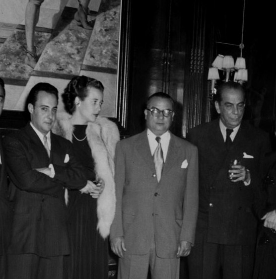 Eduardo Mendoza and his wife with Rómulo Betancourt and Romulo Gallegos.